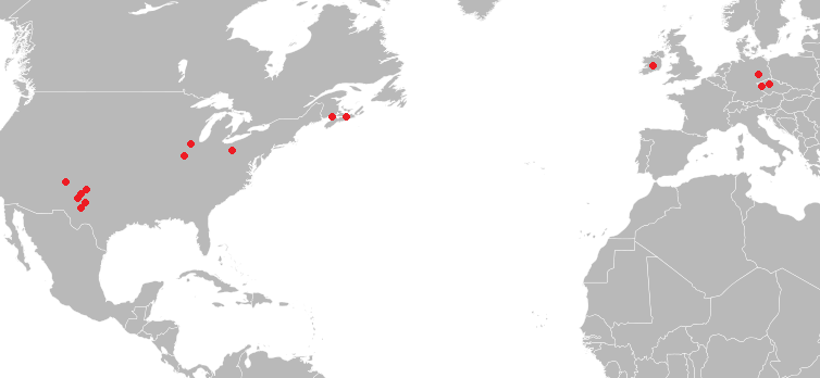 Geographic distribution (Microsauria) using blank map.